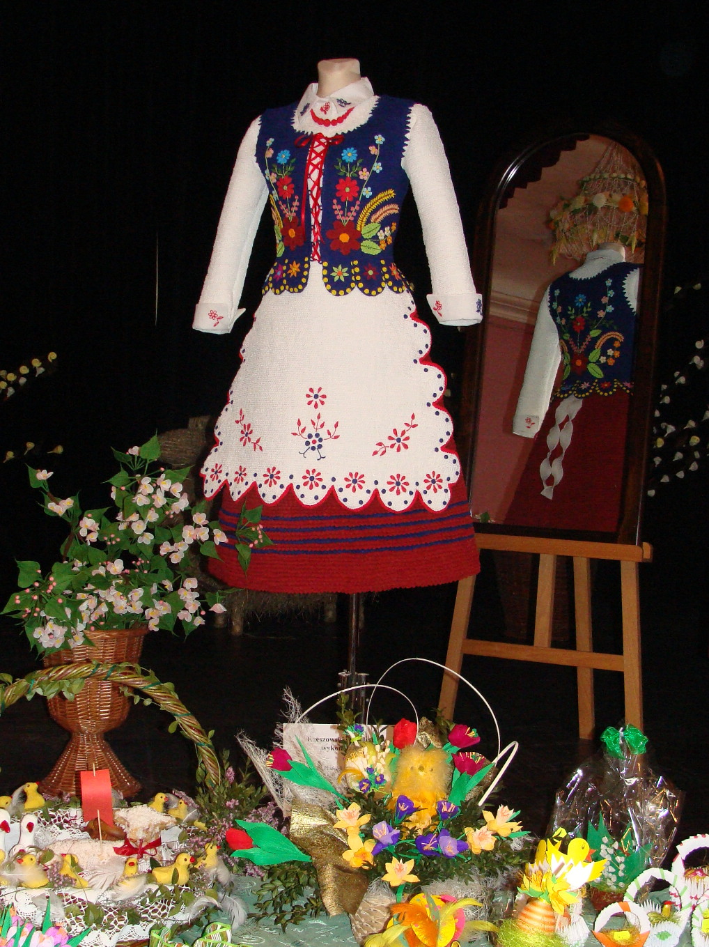 Female folk costume from Rzeszów Region, Poland. In the Miner's House - XIV Wystawa Wielkanocna wójta Gminy Sanok.